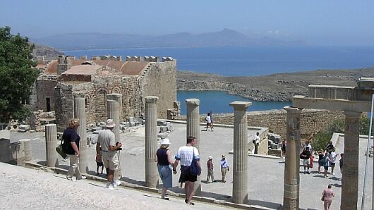 Photo by User:Adam Carr, May 2002.